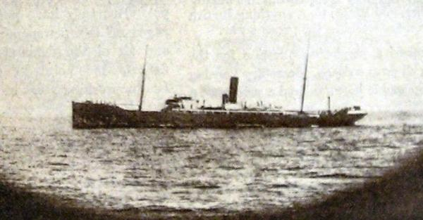 German auxiliary cruiser SMS Möve. Photo taken by a member of the crew of SS Appam, a captured merchant ship, in the 1916 South Atlantic Ocean.